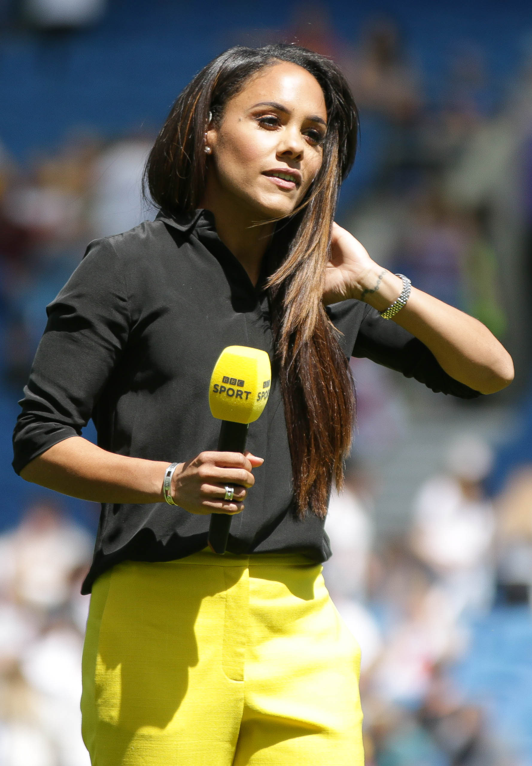 England Women 0 New Zealand Women 1 01 06 2019-67.jpg